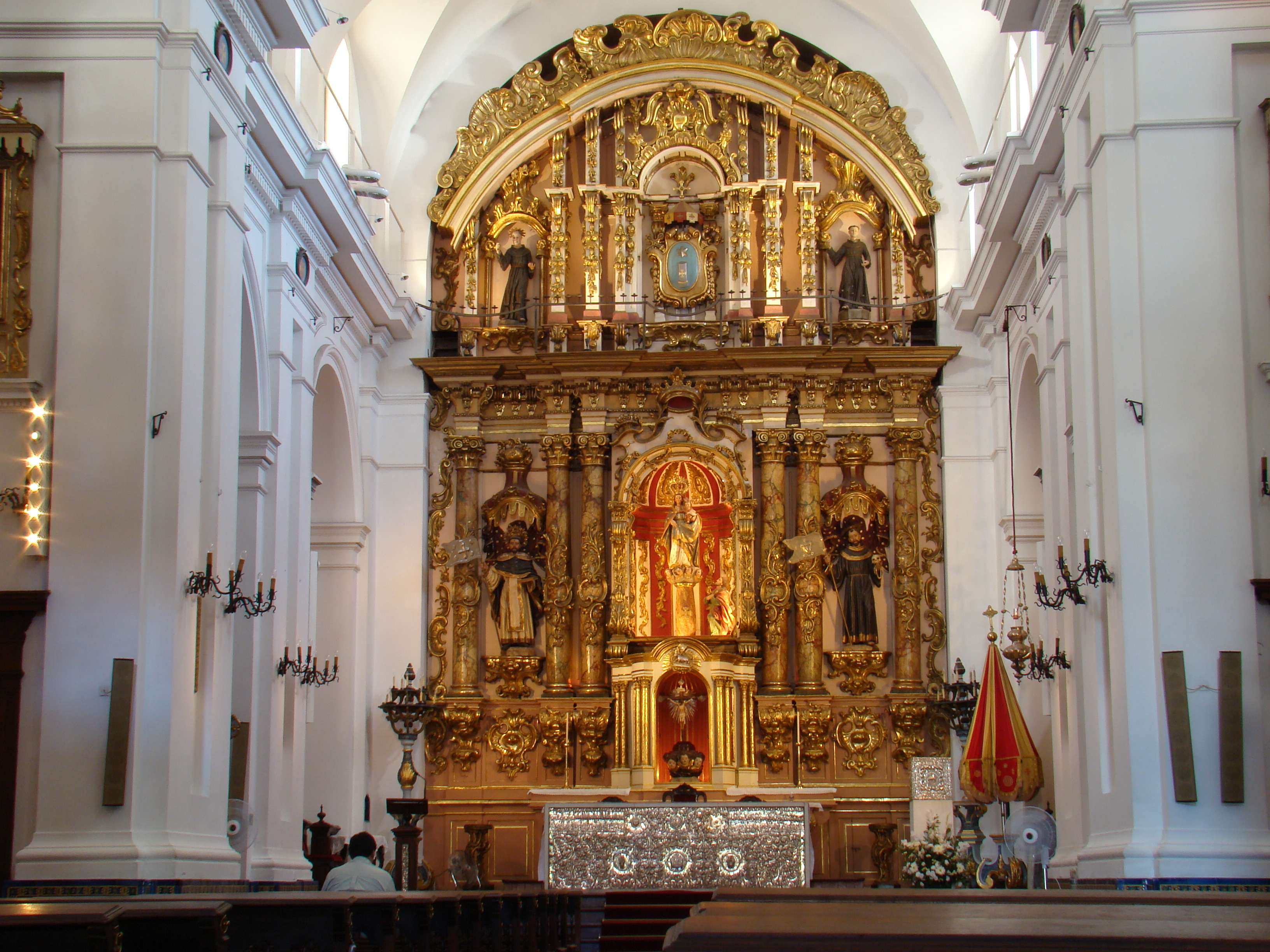 Buenos Aires. Church of Nuestra Señora del Pilar in the suburb of Recoleta. View of the presbytery with the main altarpiece and the silver altar.